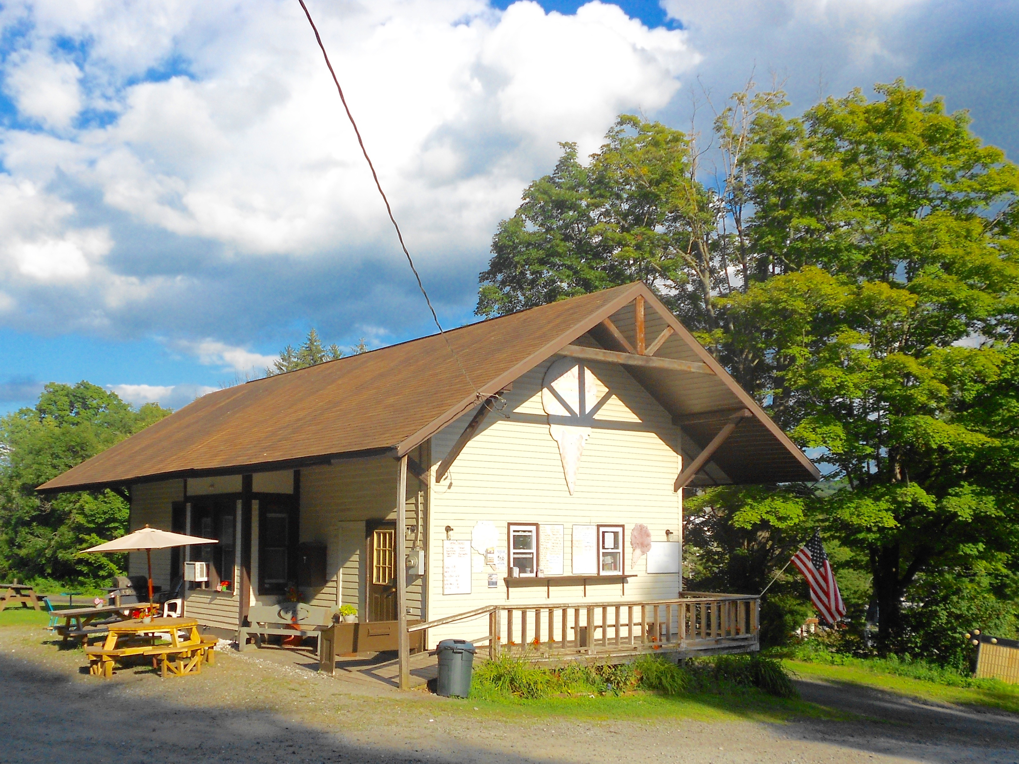 Old railway station turned into an ice cream store in Thompson, Susquehanna County, Pennsylvania